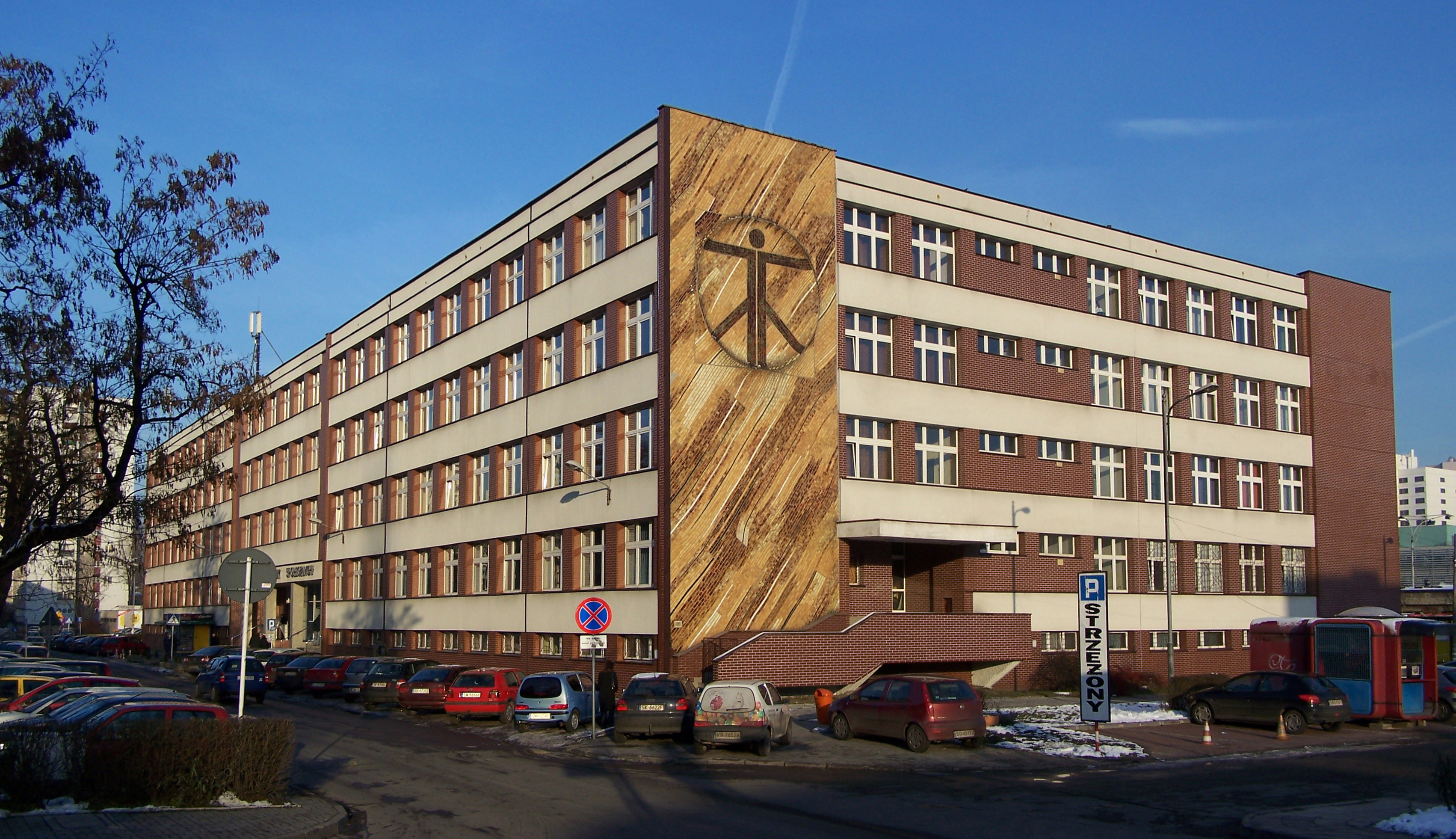 Faculty of Social Sciences. University of Silesia (Katowice, Poland).